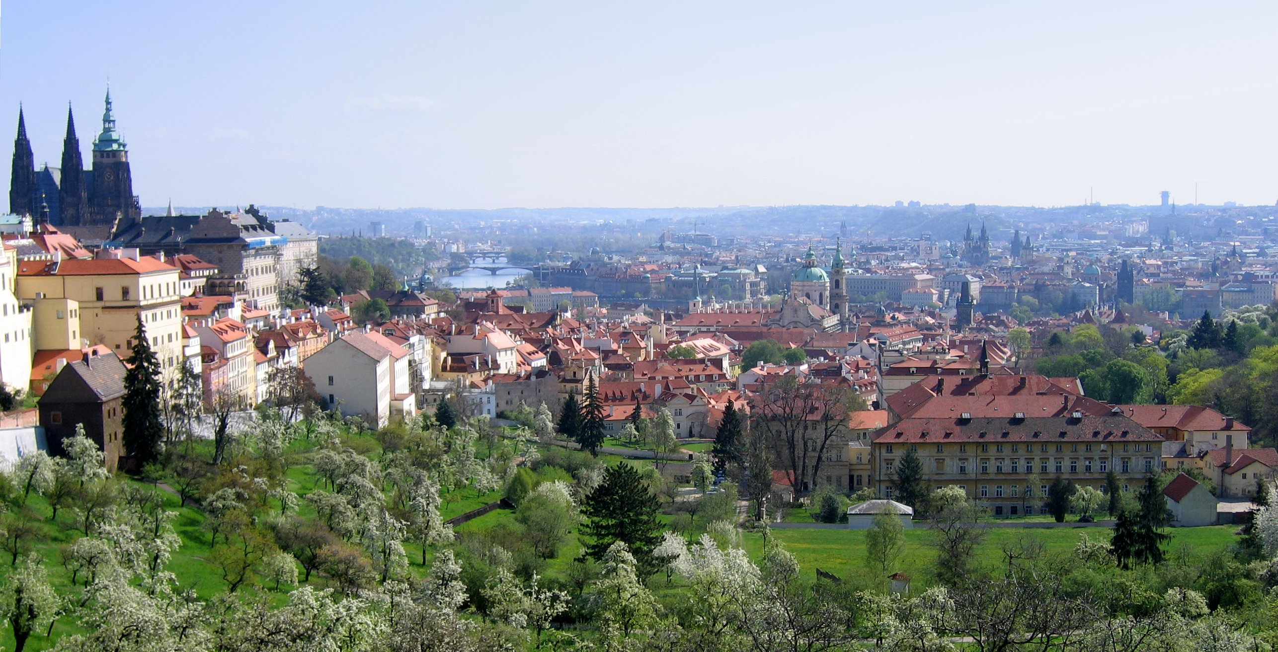 View of Malá Strana from Hradčany, Prague